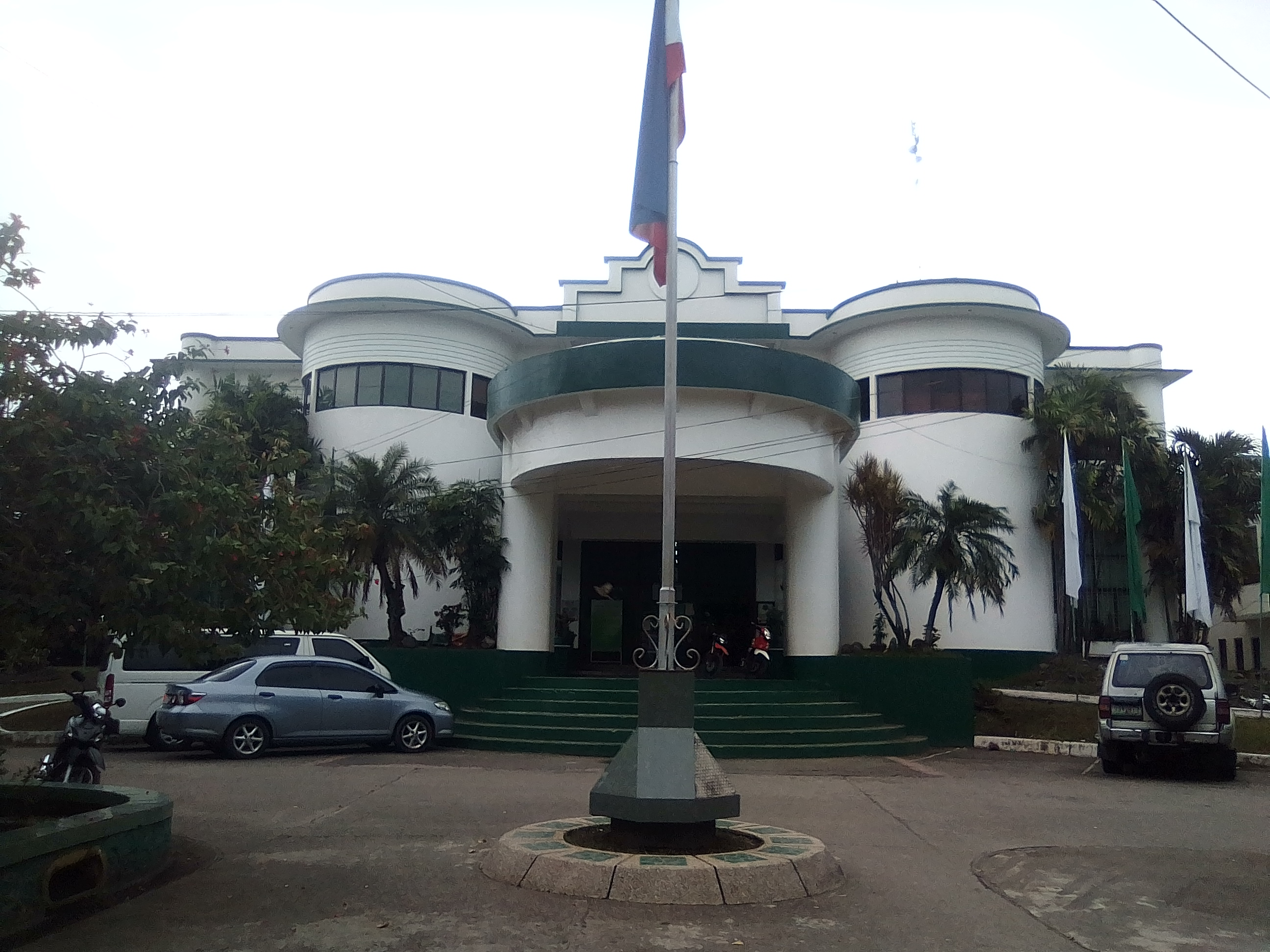 the municipal hall of calabanga (2018)